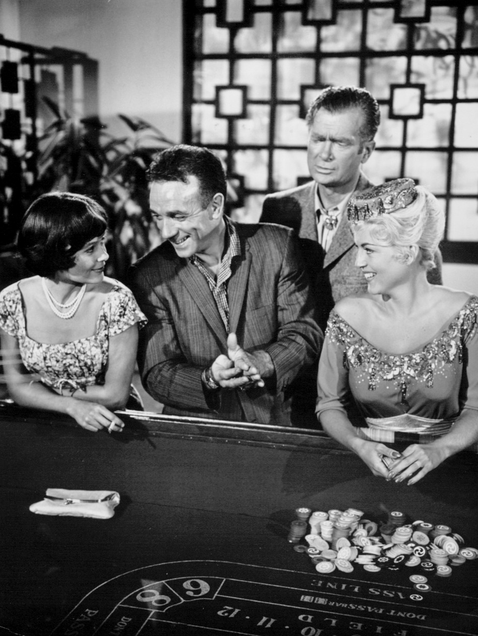 Photo from the television series The Twilight Zone. The episode is "The Prime Mover"; pictured from left to right: Christine Moore, Dane Clark, Buddy Ebsen and Jane Burgess.